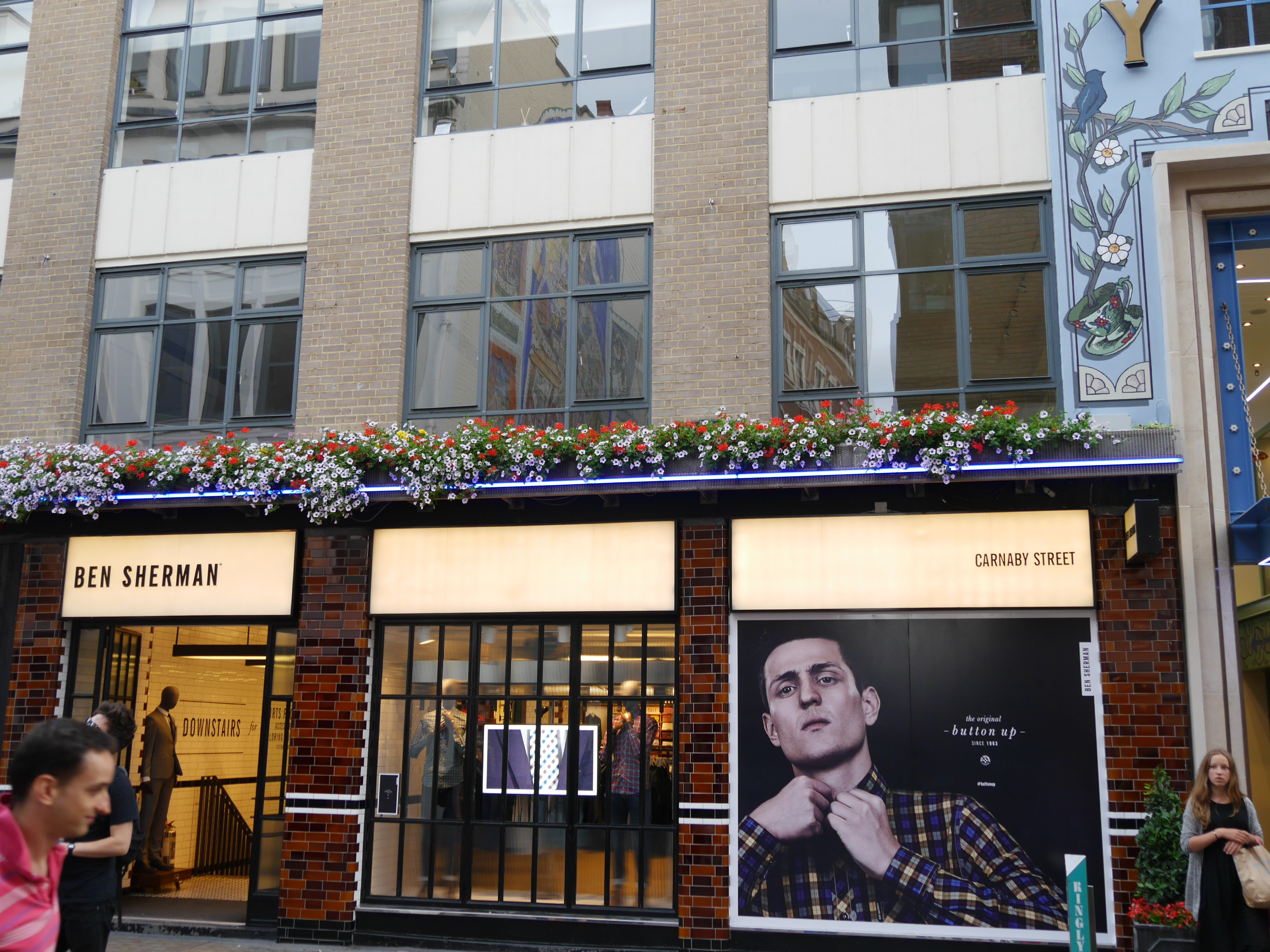 50 Carnaby Street, London